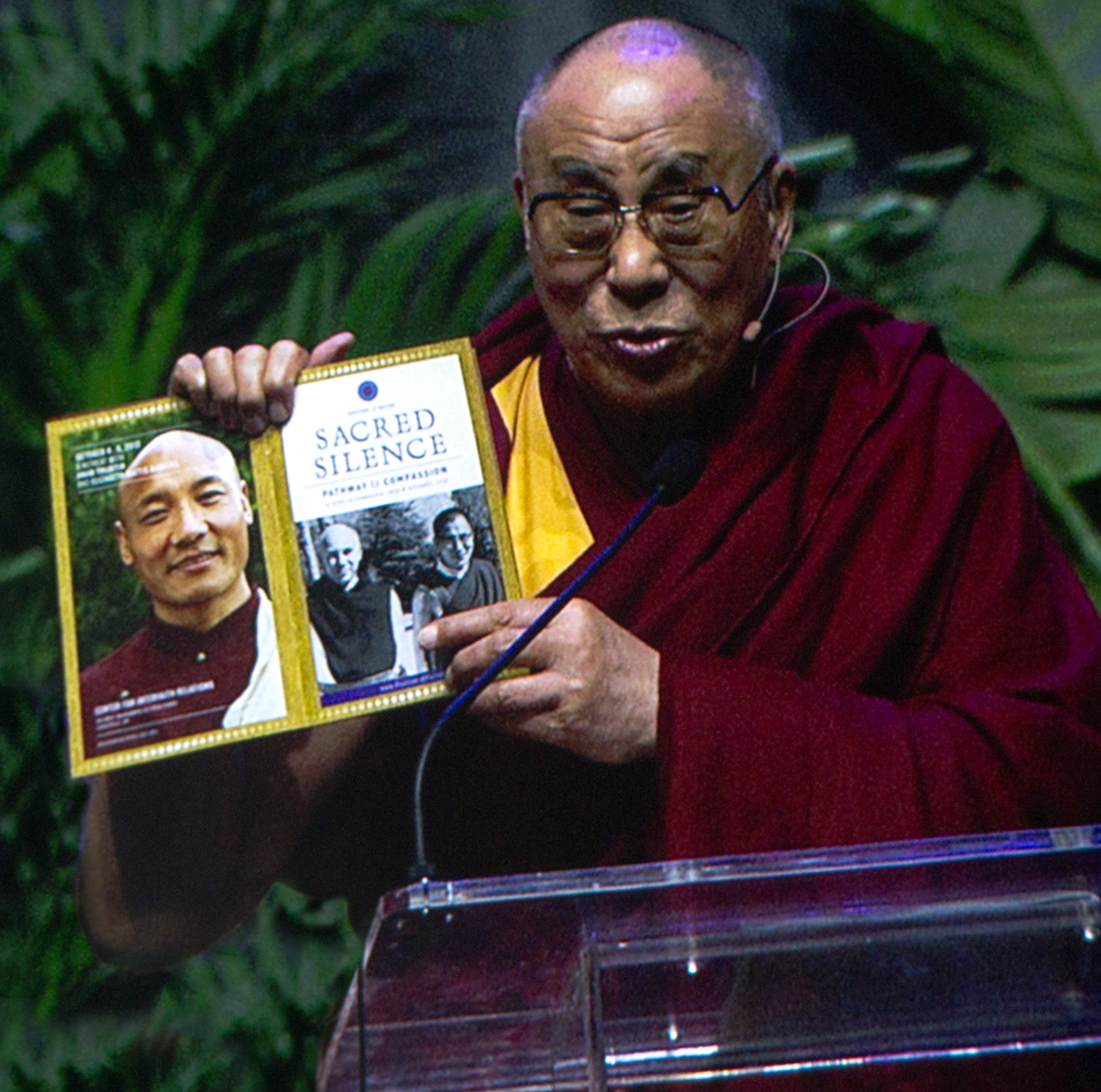 Public Talk by His Holiness the Dalai Lama Festival of Faiths speakers joined His Holiness the Dalai Lama for his public talk at the KFC YUM! Center in Louisville Kentucky on Sunday May 19, 2013. The event is hosted by the Drepung Gomang Institute.